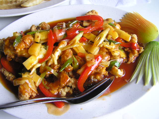 Sweet and sour fish